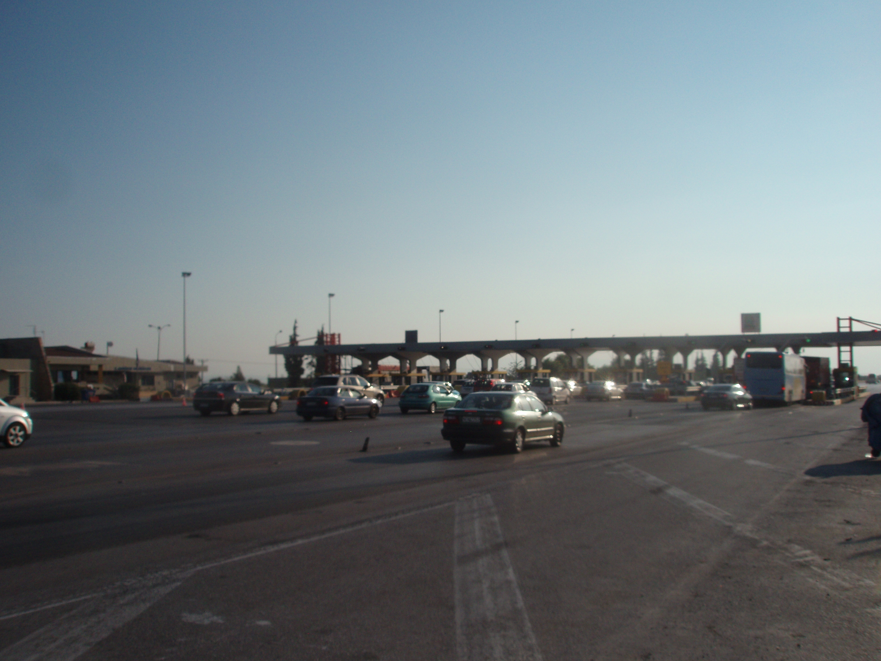 A1 motorway (ATHE) and A2 motorway (Egnatia Odos), Greece. Section Axios-Klidi (common trajectory). Toll station of (Nea) Malgara.